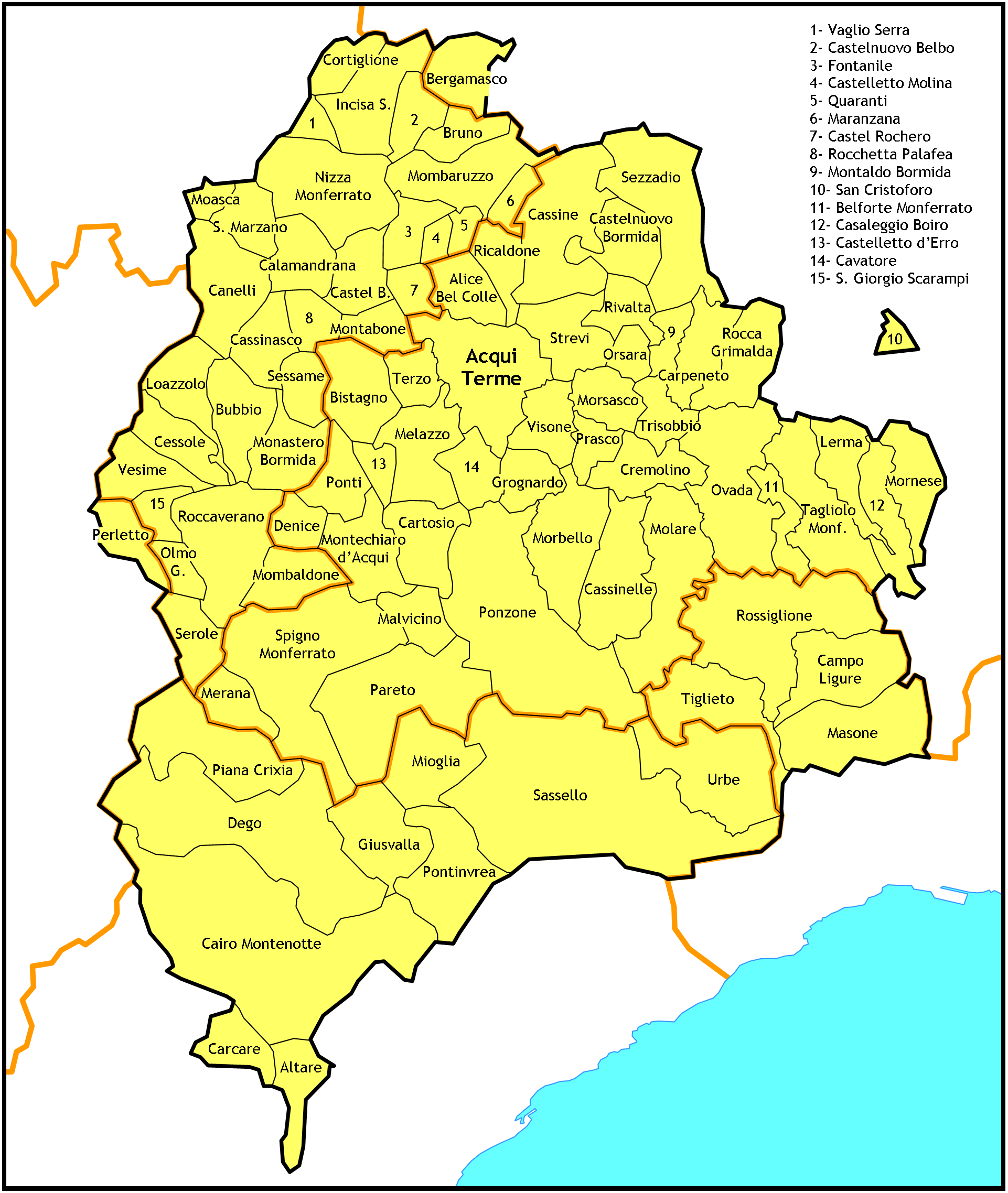 Map of Acqui's Diocese